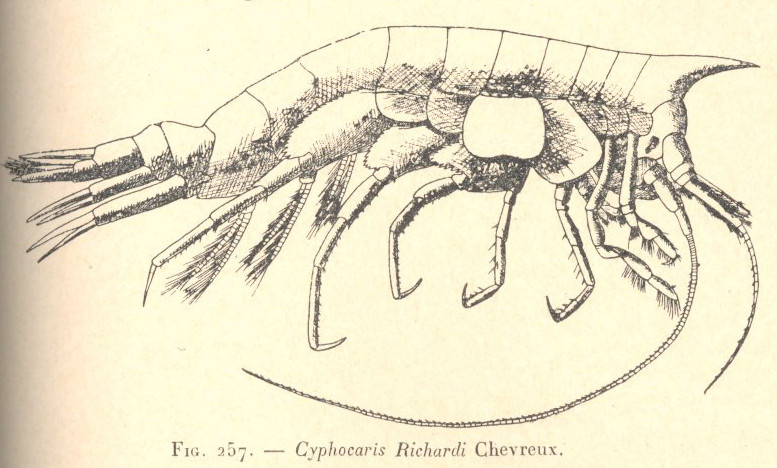 Cyphocaris Richardi Chevreux Subject: Gammaridae Tag: Shellfish